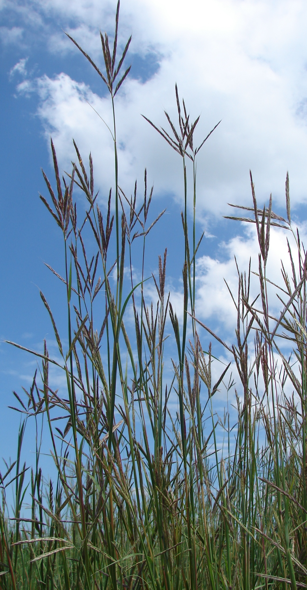 Big bluestem (Andropogon gerardii) — is a native Tallgrass Prairie plant that grows to heights in excess of 6 feet tall. Credit: Jennifer Briggs / USFWS Photo Contest Entry #114